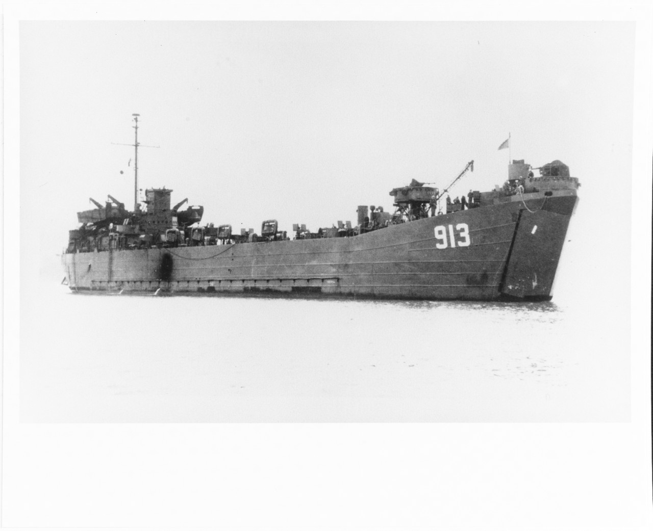 In San Francisco Bay, with LCT-1294 on deck, 1945-46.